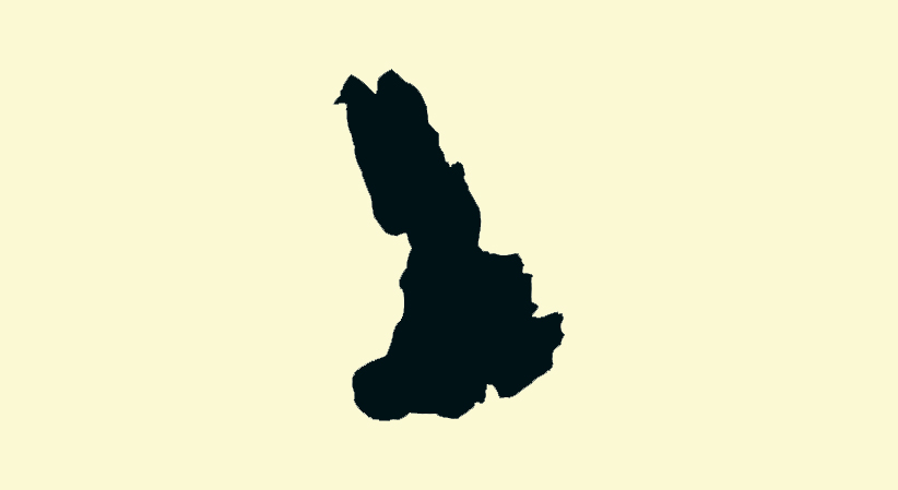 Map of Lake Balik